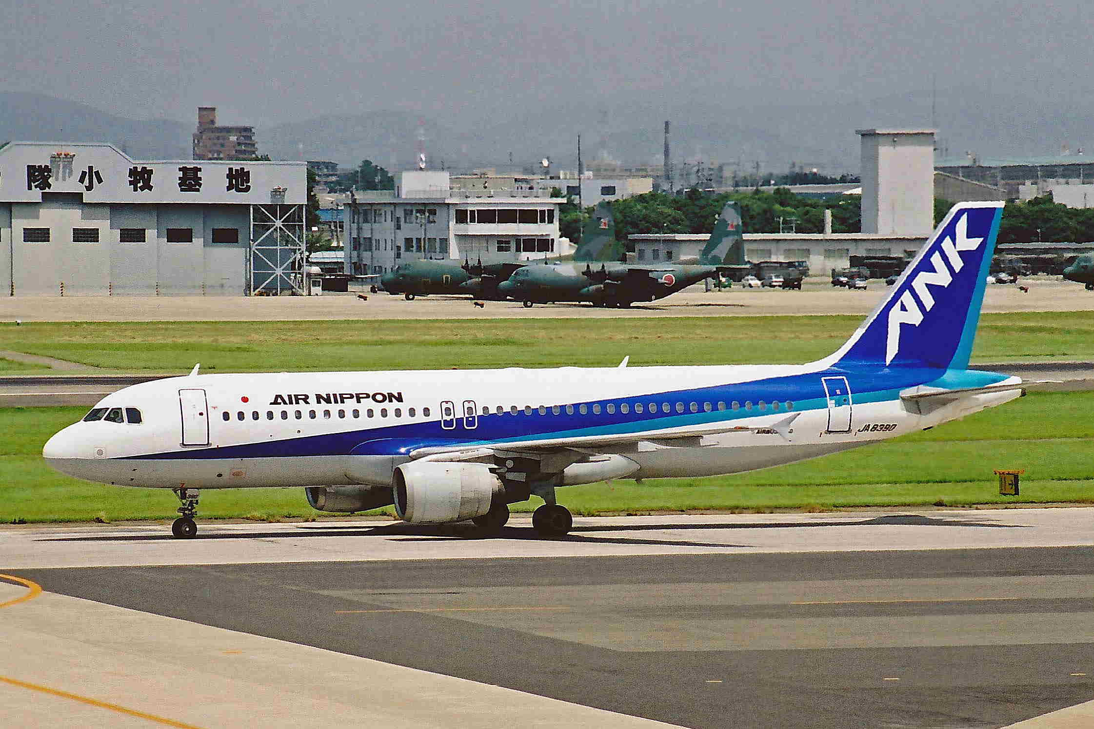 JA8390 A320-211 ANK Air Nippon NGO 07JUL-01.